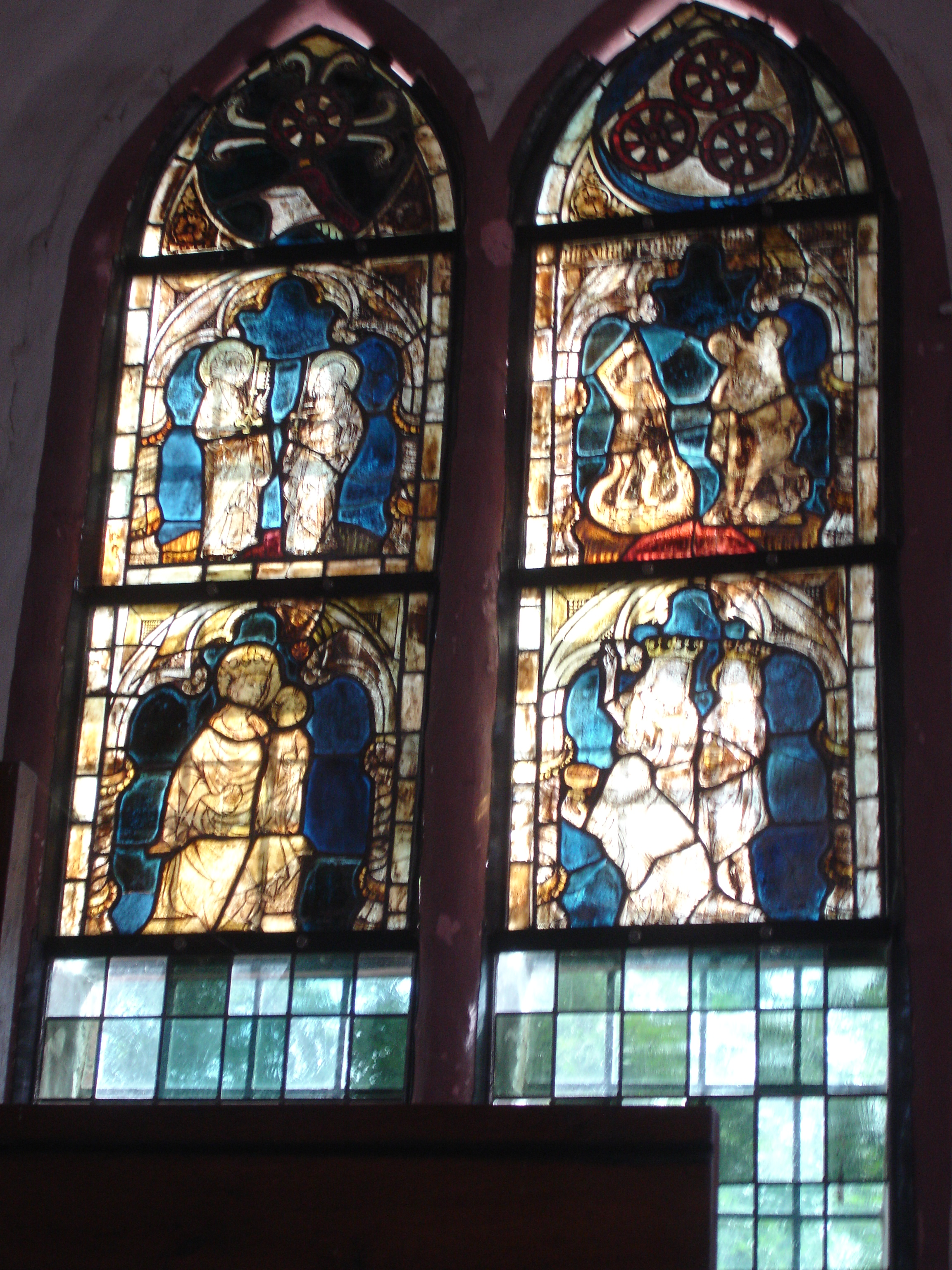 Church in Bössow, district Nordwestmecklenburg, Mecklenburg-Vorpommern, Germany